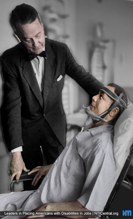 This is a watercolor picture of Dr. Howard A. Rusk and Roy Campanella as originally depicted by a black and white photograph in TIME Magazine. The painting was created by Michael T. Sanders, of , as a educational tool for to honor the late Doctor Rusk.